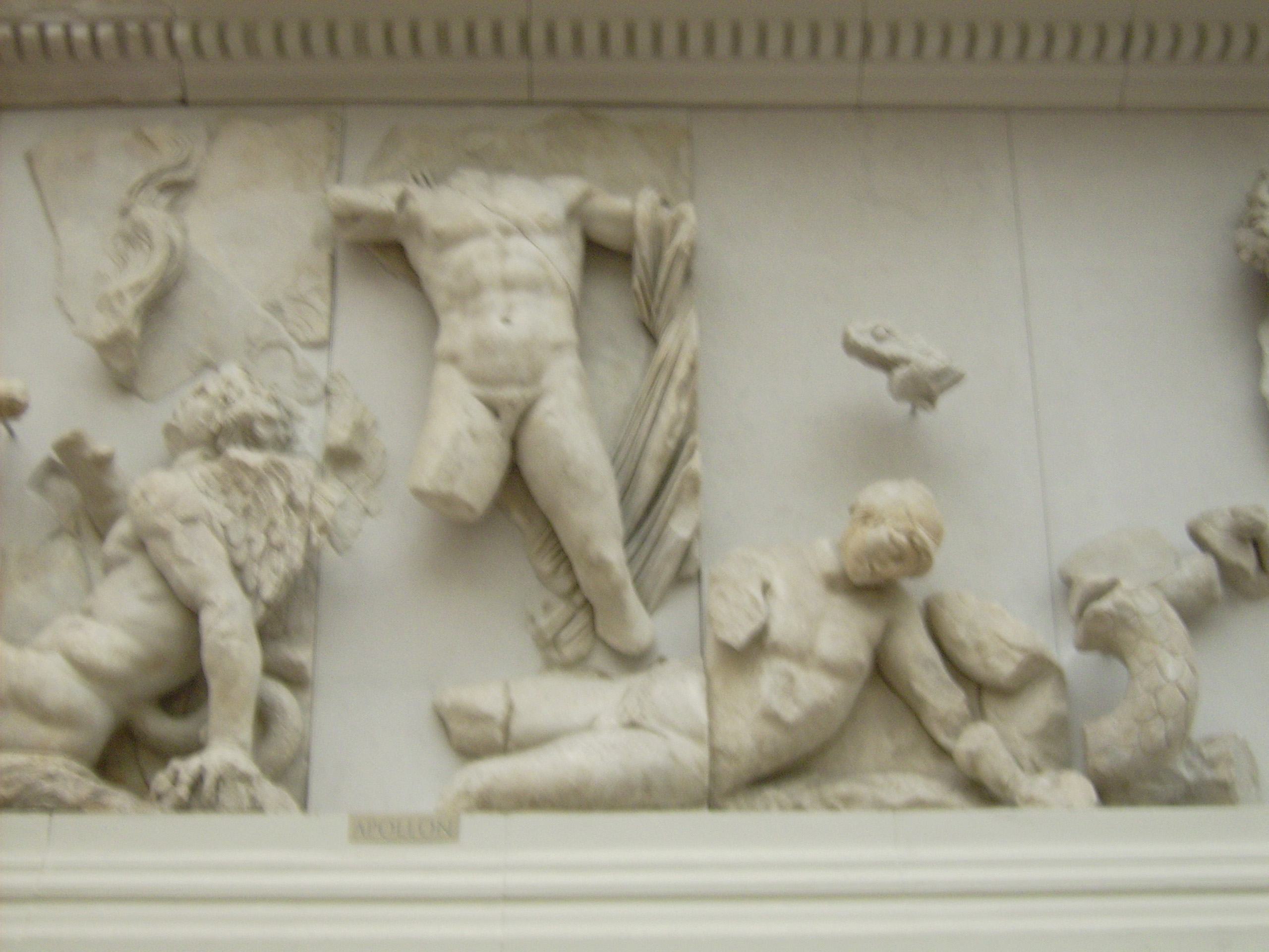 Apollon fights Epialtes